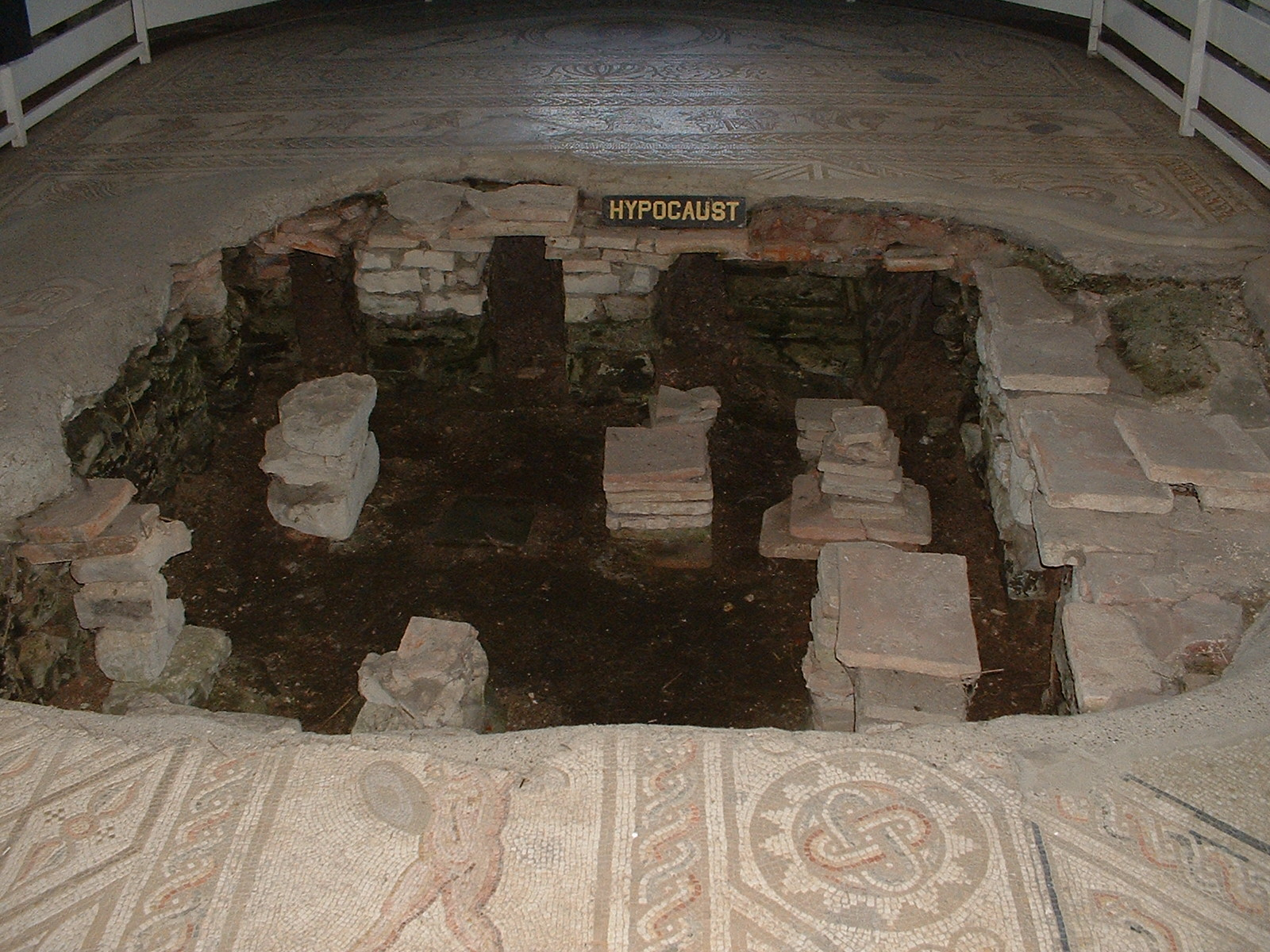 Hypocaust at the Ancient Roman Bignor Villa (UK).